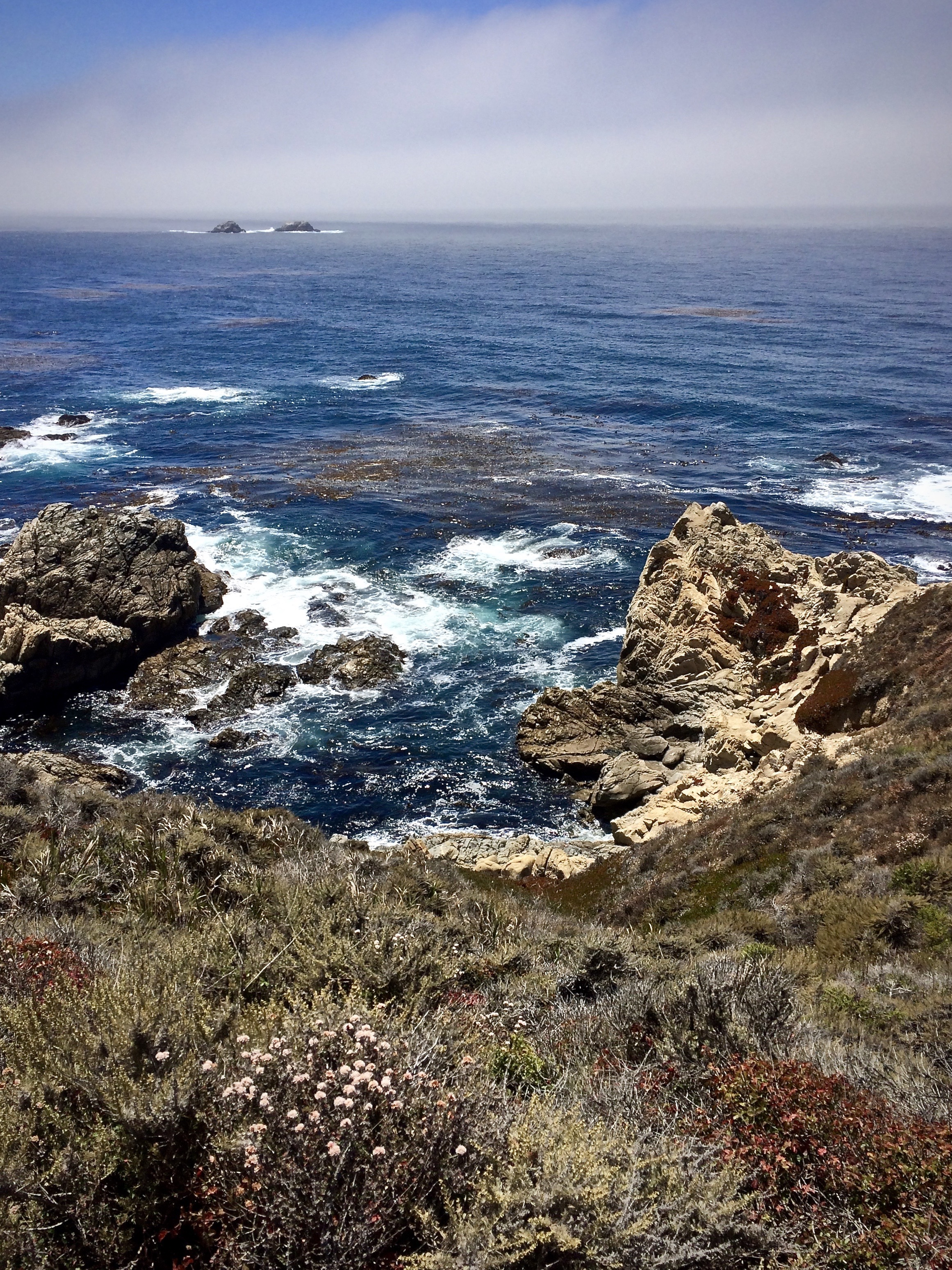 Beautiful, sunny WINDY day on our first trip down CA-1 since it reopened. Lots of coastal buckwheat blooming. -- which needs work.